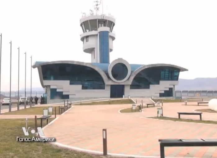 Stepanakert Airport